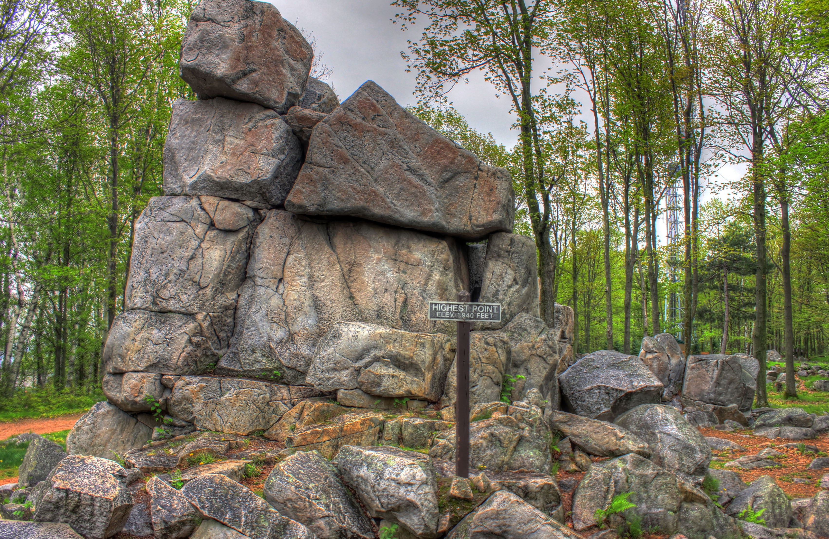 Free public domain stock photos of Rib mountain state park, a state park in Central Wisconsin that is also a Ski Mountain near Wausau. The park has an area of Free Public Domain stock photo of Rocks near the "Queen's Chair" formation near Rib Mountain.